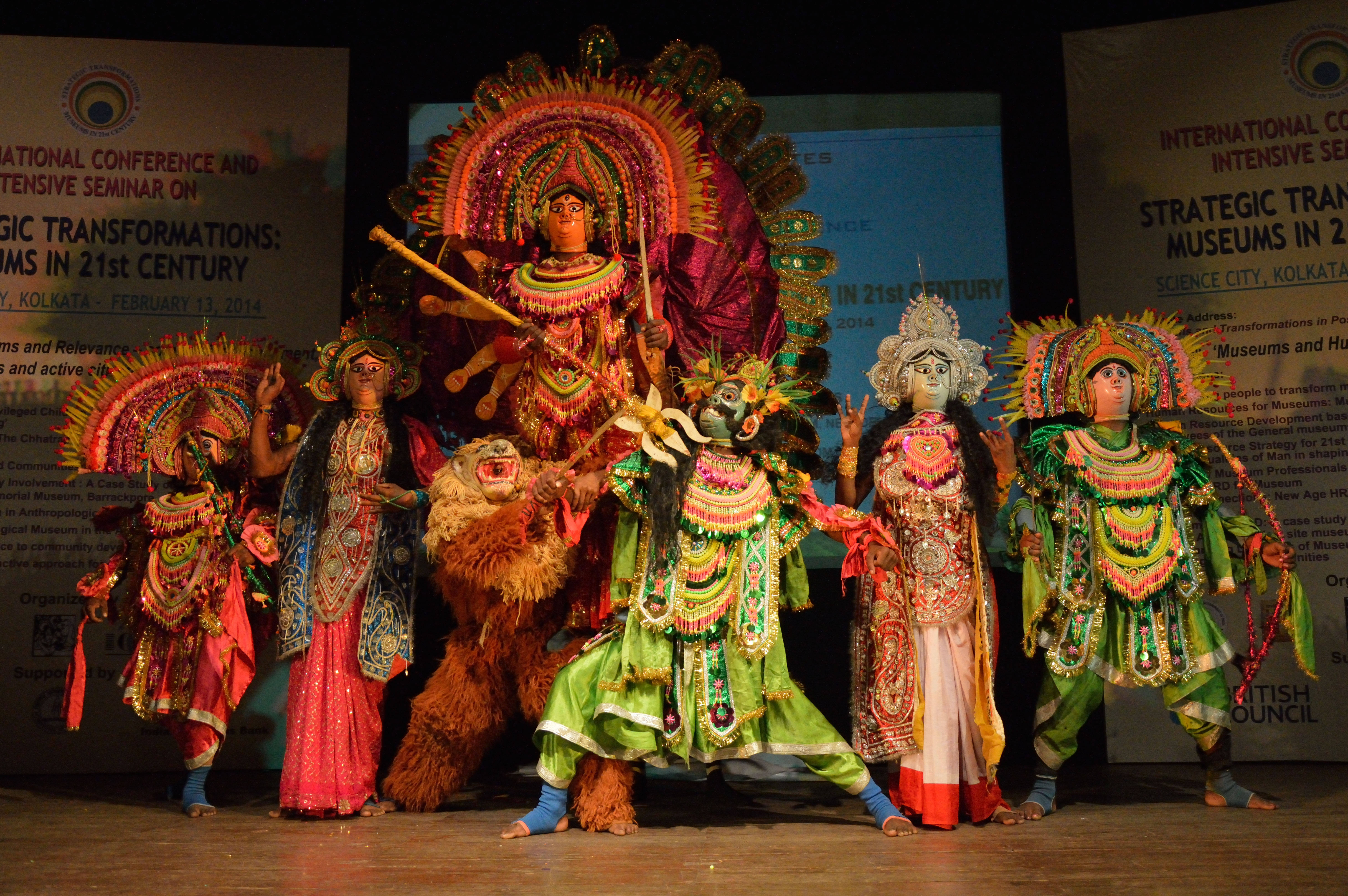 The 'Mahisasuramardini' - a 'Chhau' dance has been performed by the 'Royal Chhau Academy' group from Purulia, during an international conference and intensive seminar on 'Strategic Transformations: Museums in 21st Century' that organised by the National Council of Science Museums, India in collaboration with Indian Museum, Kolkata, National Museum, New Delhi (Ministry of Culture Govt. of India) and Indian National Committee of ICOM. It was held at Mini Auditorium, Science City, Kolkata on 13 February, 2014.